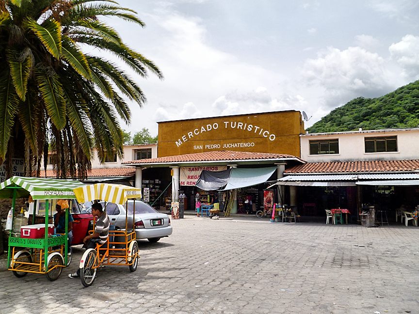 Main Market and Tourist Center for the town of San Pedro Juchatengo, Oaxaca, Mexico.